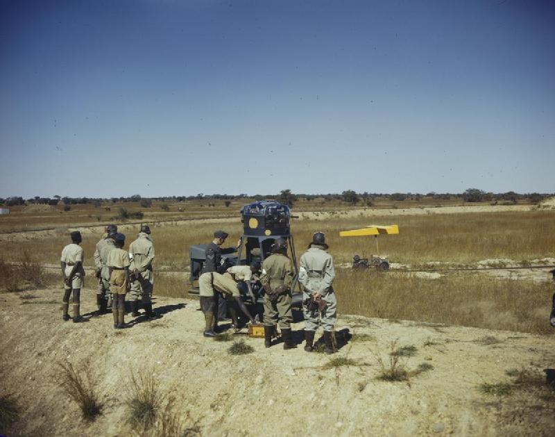 Commonwealth Joint Air Training Plan, No 23 Air School at Waterkloof, Pretoria, South Africa, January 1943 Training air machine gunners at No 23 Air School. Pupils waiting to take a turn in the power turret rig. The target is a motorized rail buggy which orbited the track at around 40 mph. The Askari native orderlies replenished the ammunition and collected the cases from fired rounds.